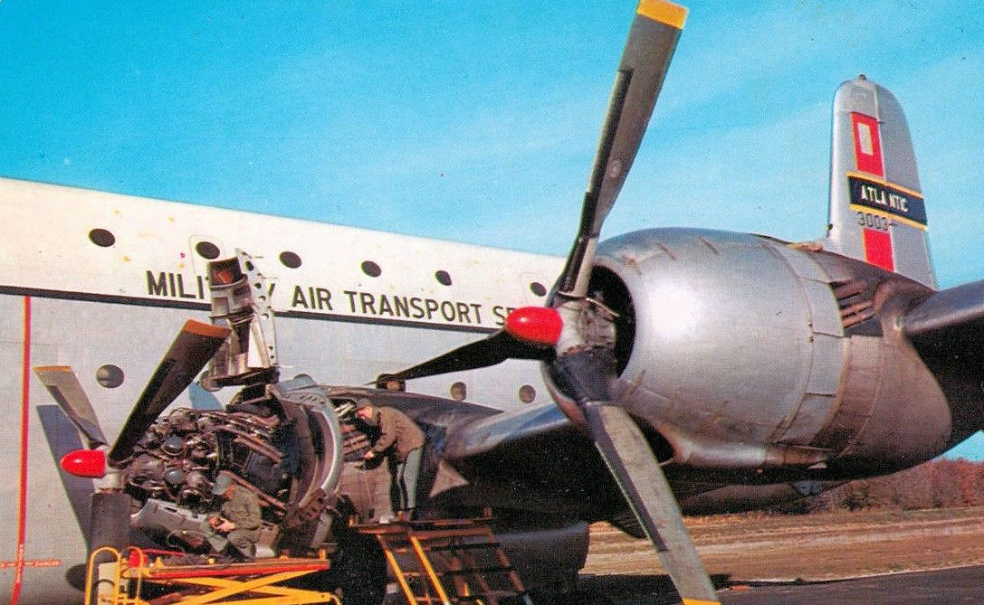 Dover Air Force Base - MATS C-124 Globemaster II Maintenence